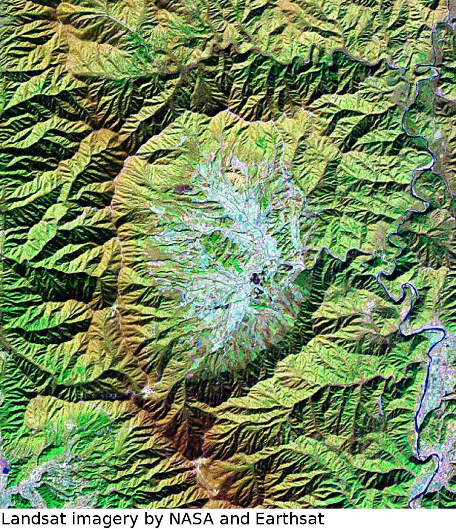 Haean-myeon, Korea, a.k.a. "The Punchbowl" from NASA Landsat imagery